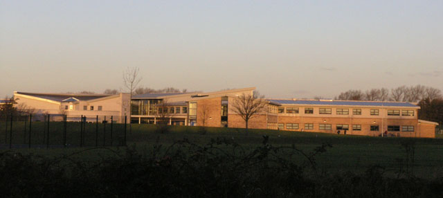 The Long Eaton School - New building in Long Eaton (Derbyshire)